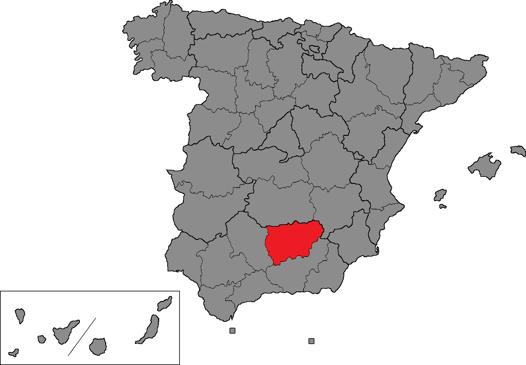 Spanish Congress of Deputies district of Jaén.